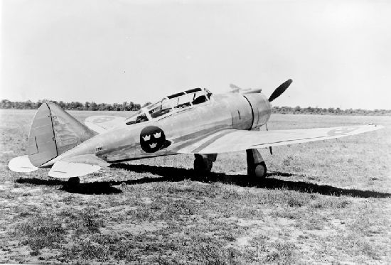 Seversky 2PA (B 6) in Swedish Air Force